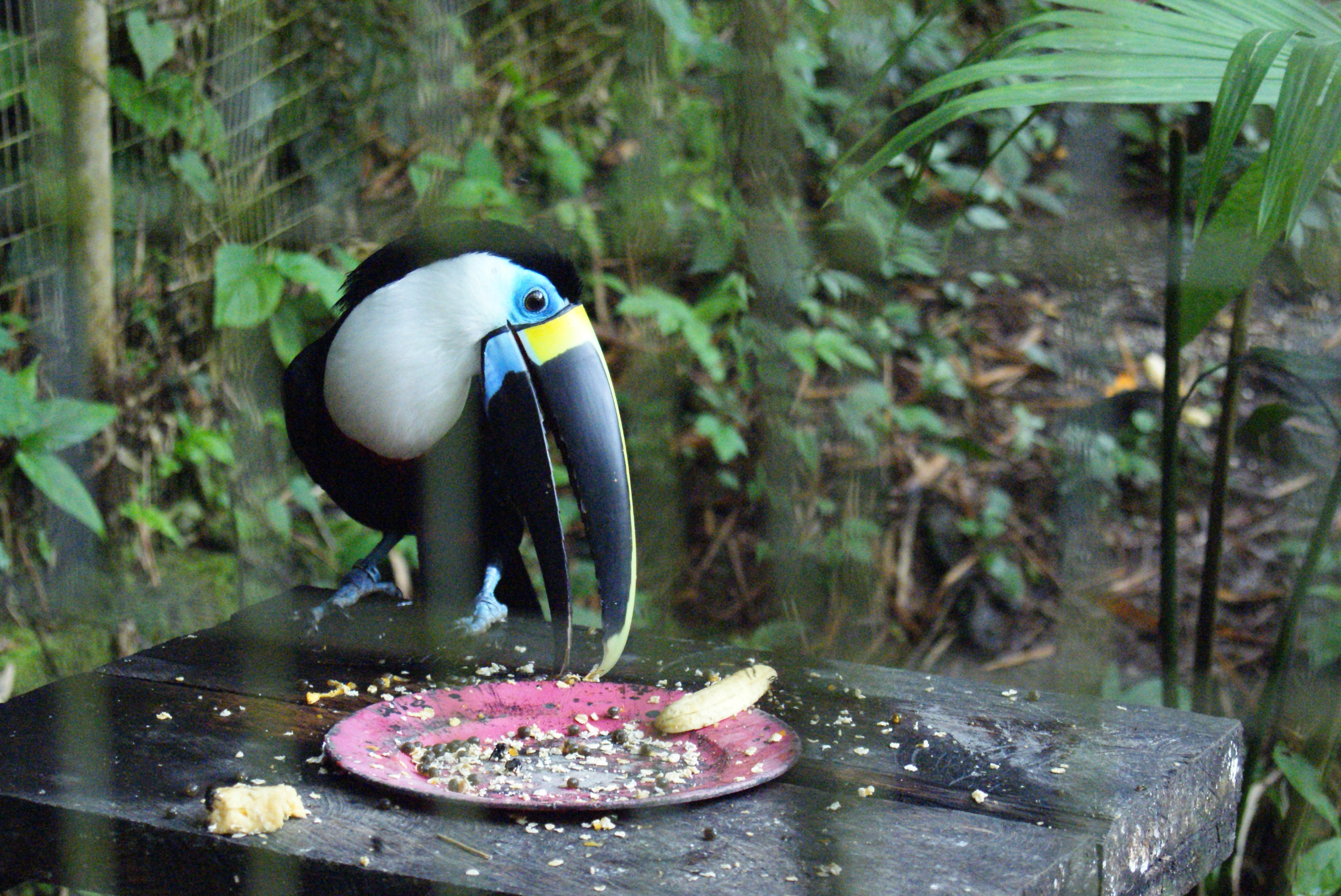 Ramphastos tucanus cuvieri